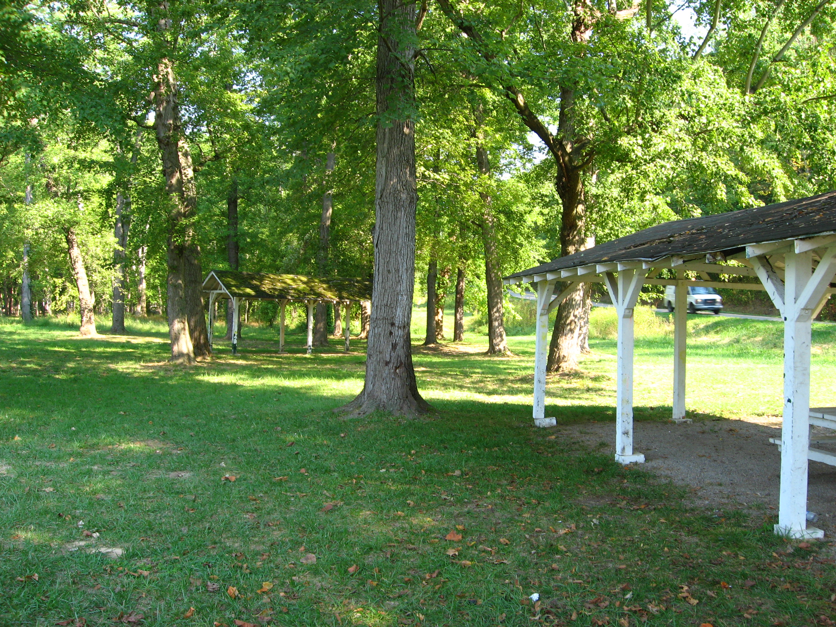 Photo of the semi-abandoned park located in Hometown, West Virginia. The park is now part of the Amherst-Plymouth Wildlife Management Area. West Virginia Route 62 can be seen to the right.